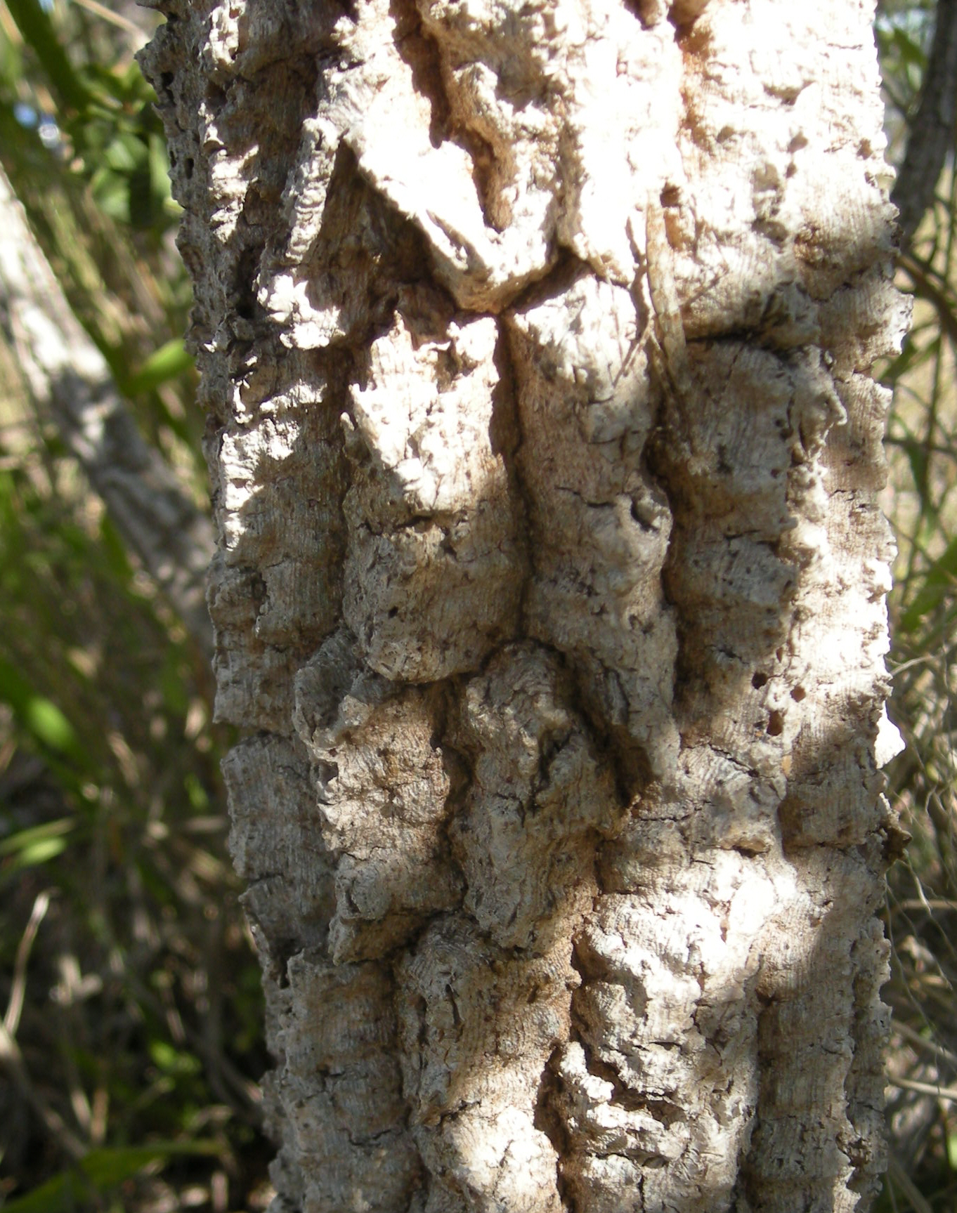 Pogonolobus reticulatus (Coelospermum reticulatum) bark, Mount Archer National Park, Rockhampton